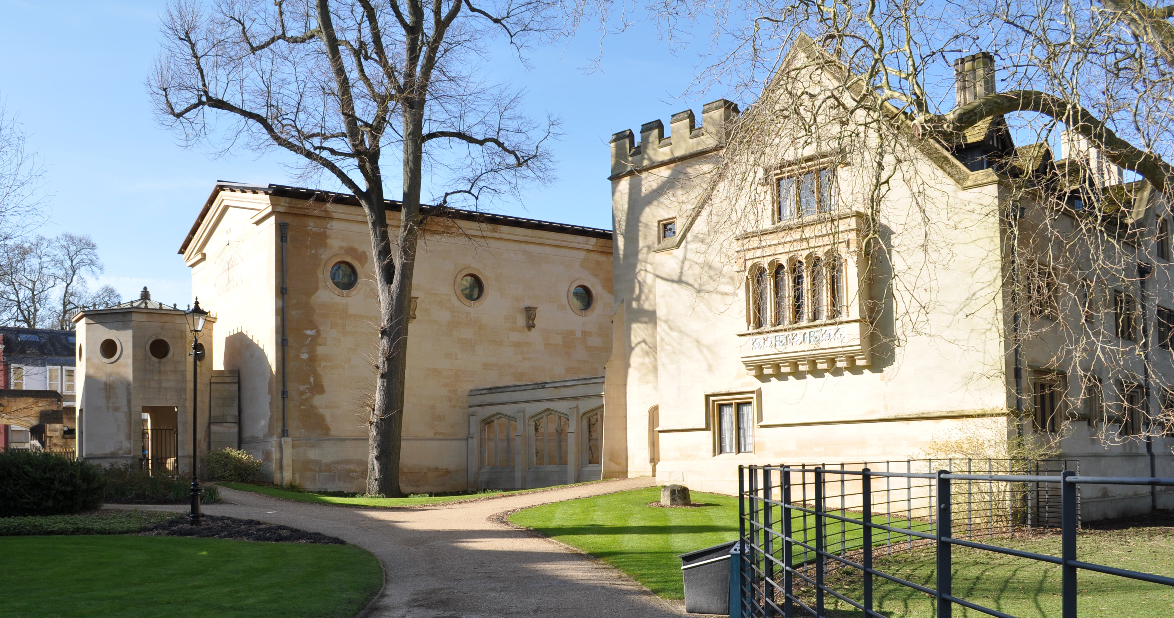 The Grove Buildings in Magdalen College, Oxford. Leftmost is an octagonal rotunda and entrance to the auditorium. They were built between 1994-1999 by Porphyrios Associates. The photographic reproduction of this work is covered under United Kingdom law (Section 62 of the Copyright, Designs and Patents Act 1988), which states that it is not an infringement to take photographs of buildings, or of sculptures, models for buildings, or works of artistic craftsmanship permanently located in a public place or in premises open to the public. This does not apply to two-dimensional graphic works such as posters or murals. See COM:CRT/United Kingdom#Freedom of panorama for more information.